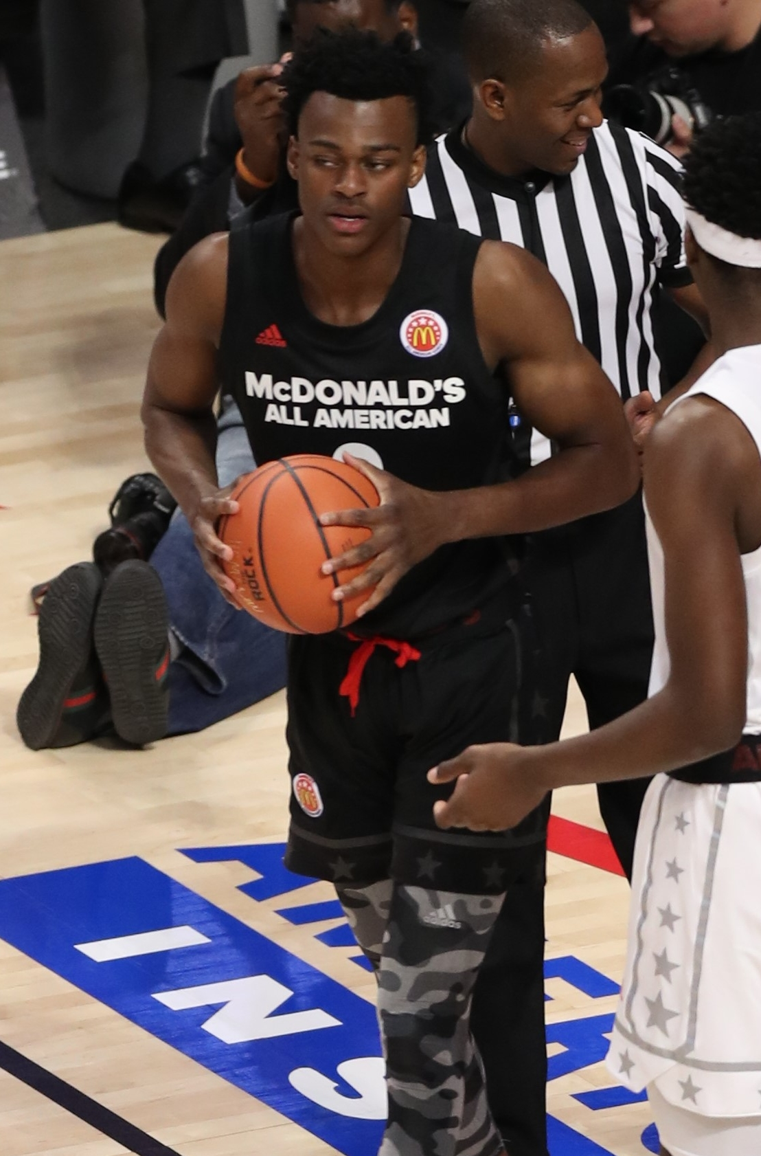 Jarred Vanderbilt at the w:2017 McDonald's All-American Boys Game